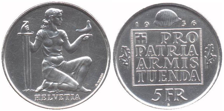 Swiss 5 franc commemorative coin 1936 "Wehranleihe"